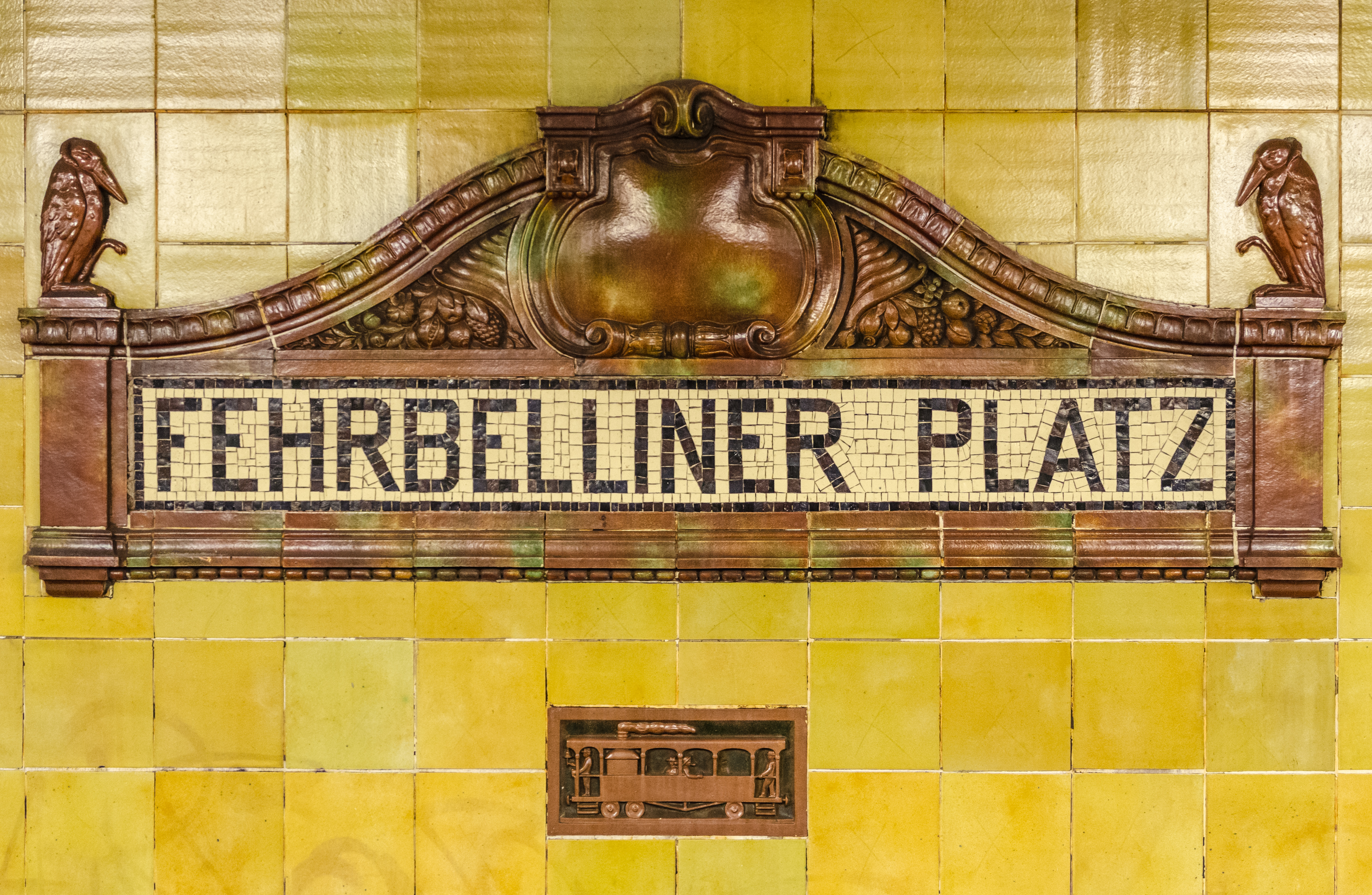 A station sign at the U3 station Fehrbelliner Platz